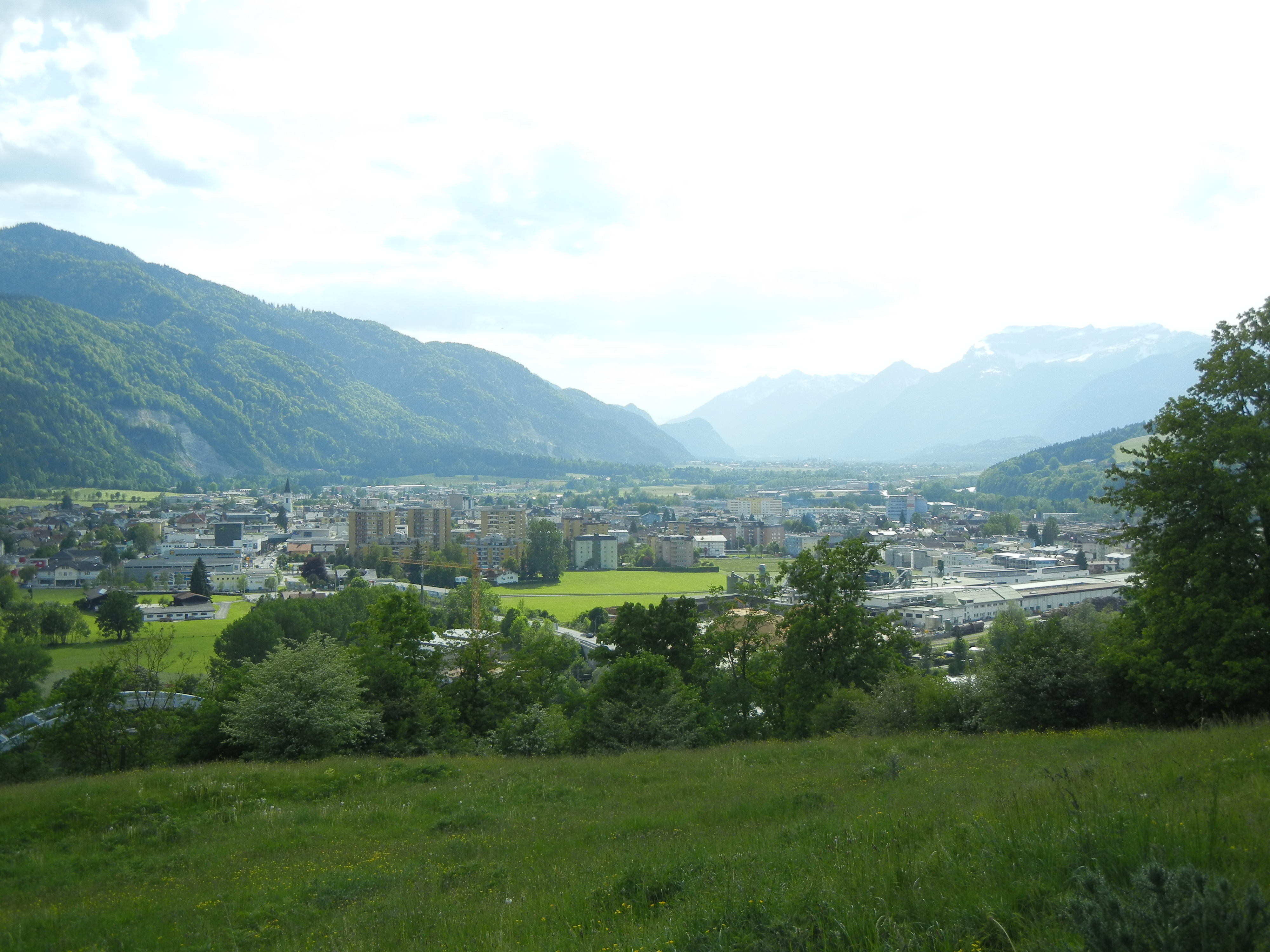 The Inntal Valley at the area of Wörgl (Tyrol, Austria).